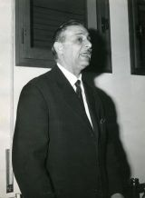 Rito Valla